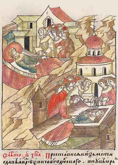 Death of Mstislav Andreyevich, grandson of Yuri Dolgorukiy